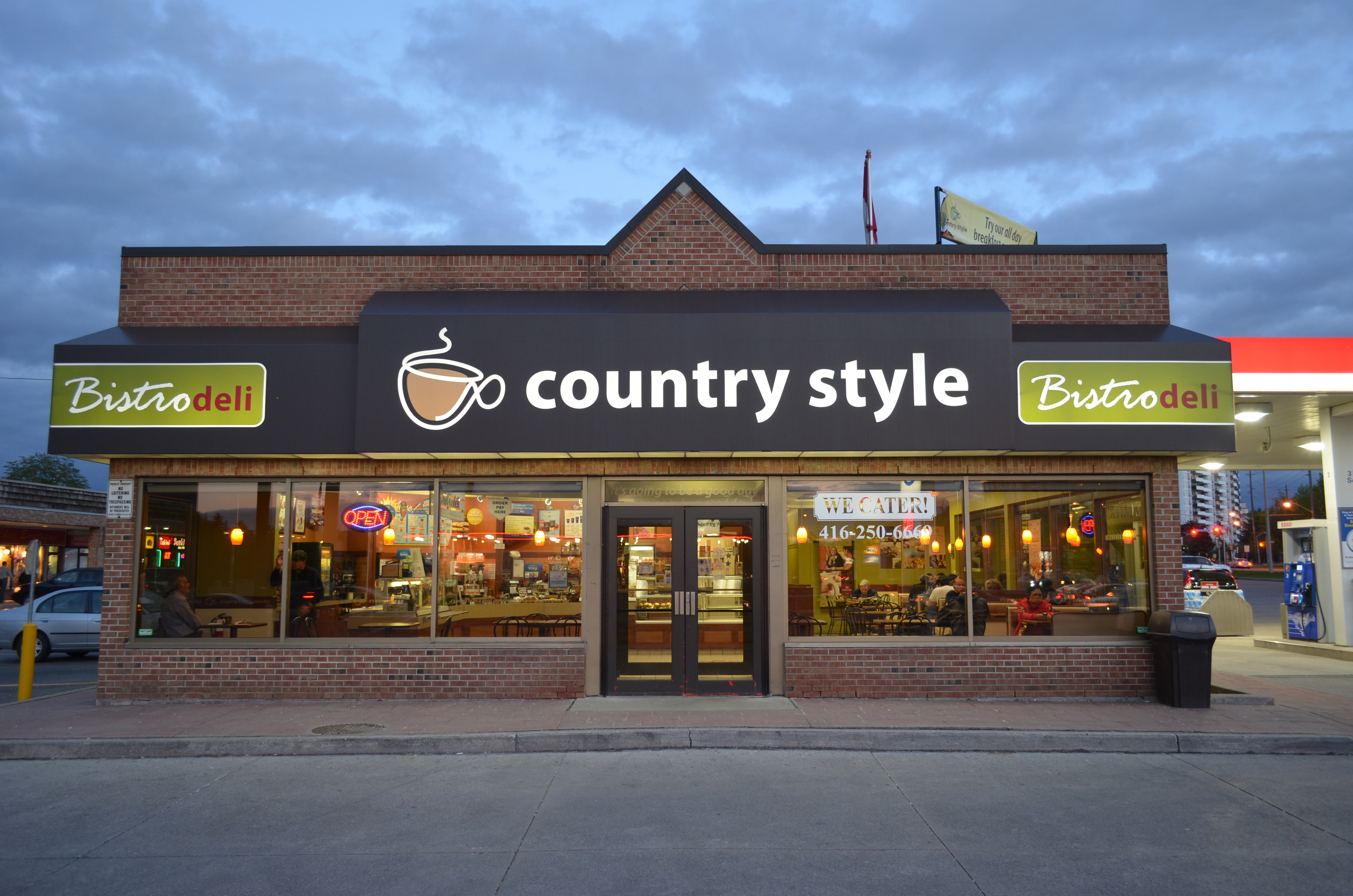 Country Style - 6255 Bathurst Street, North York